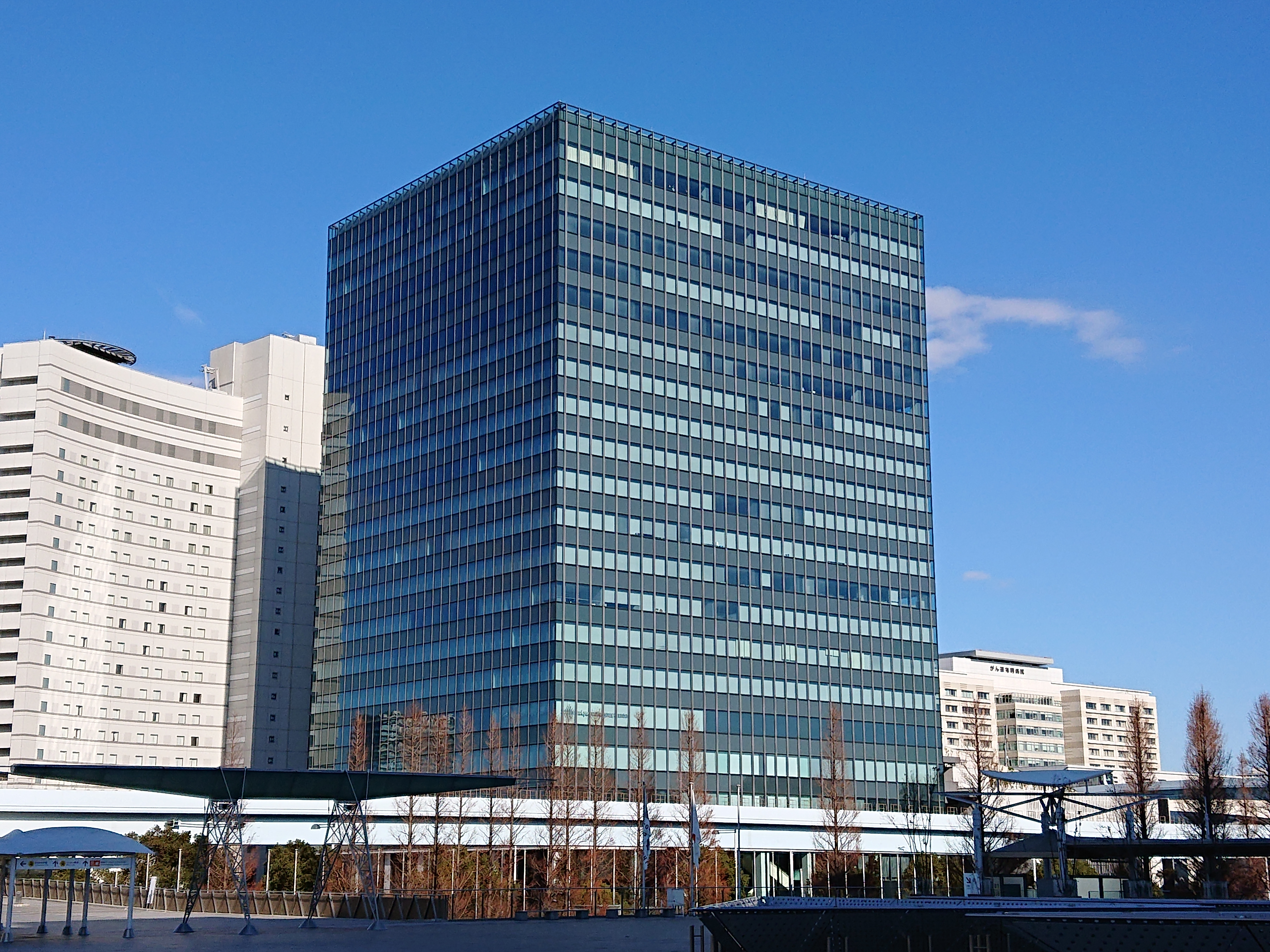 Ariake Central Tower (有明セントラルタワー), located at 3-7-18 Ariake, Koto, Tokyo, Japan